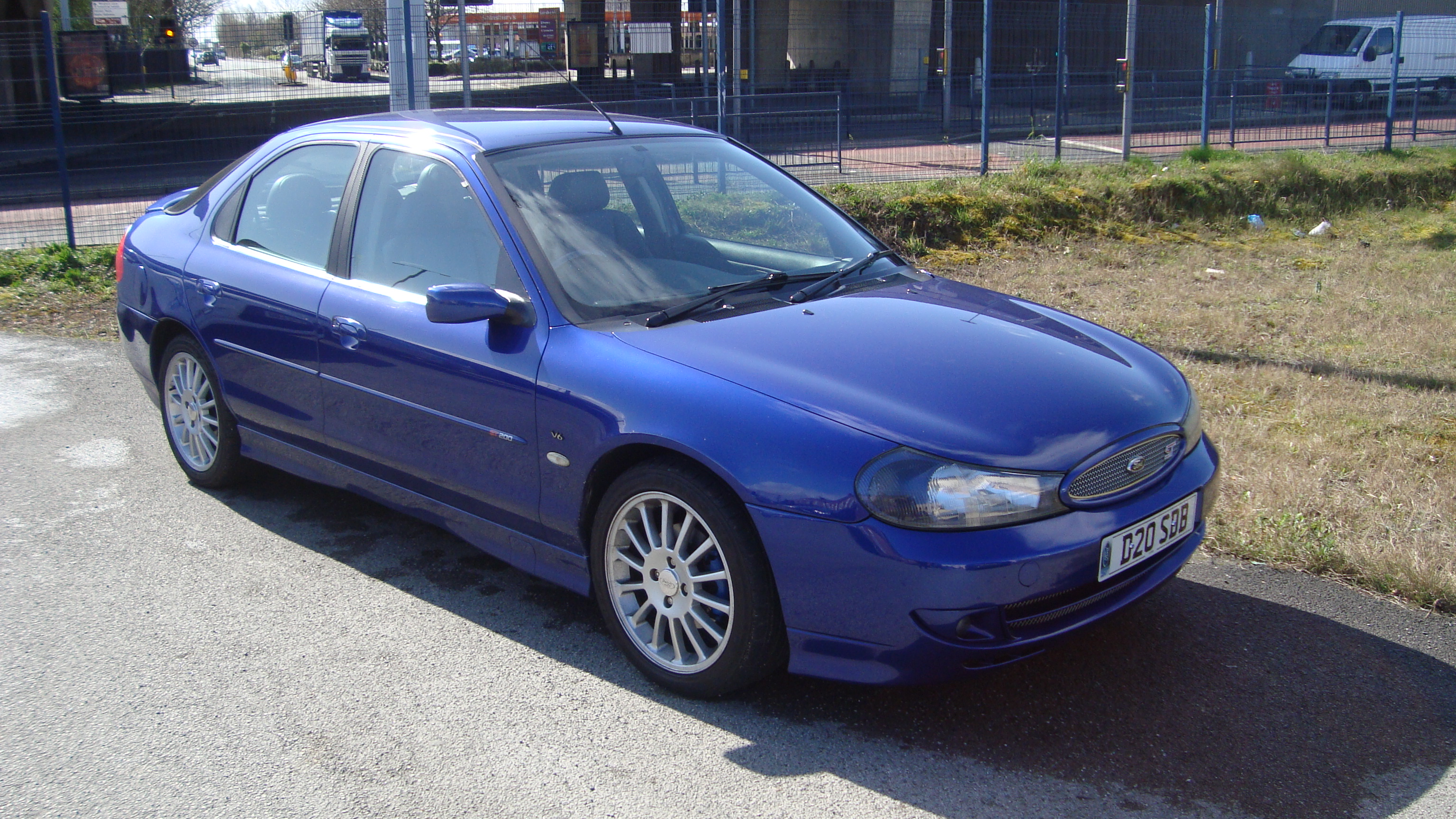 Absolutely love Mondeo ST200's and this is a lovely example